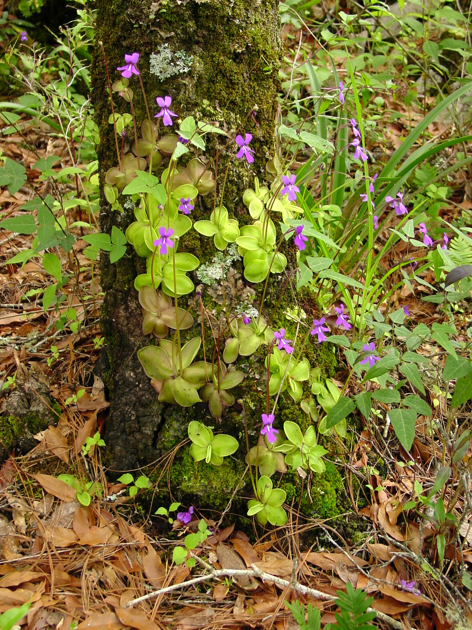 Pinguicula moranensis growing on the base of a tree in Tamaulipas, Mexico